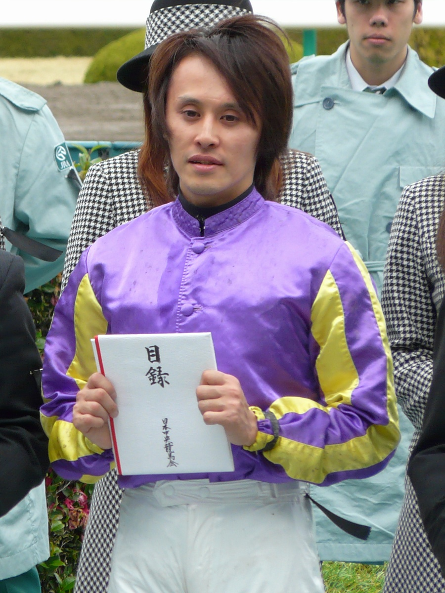 Yusuke-Eda20110321